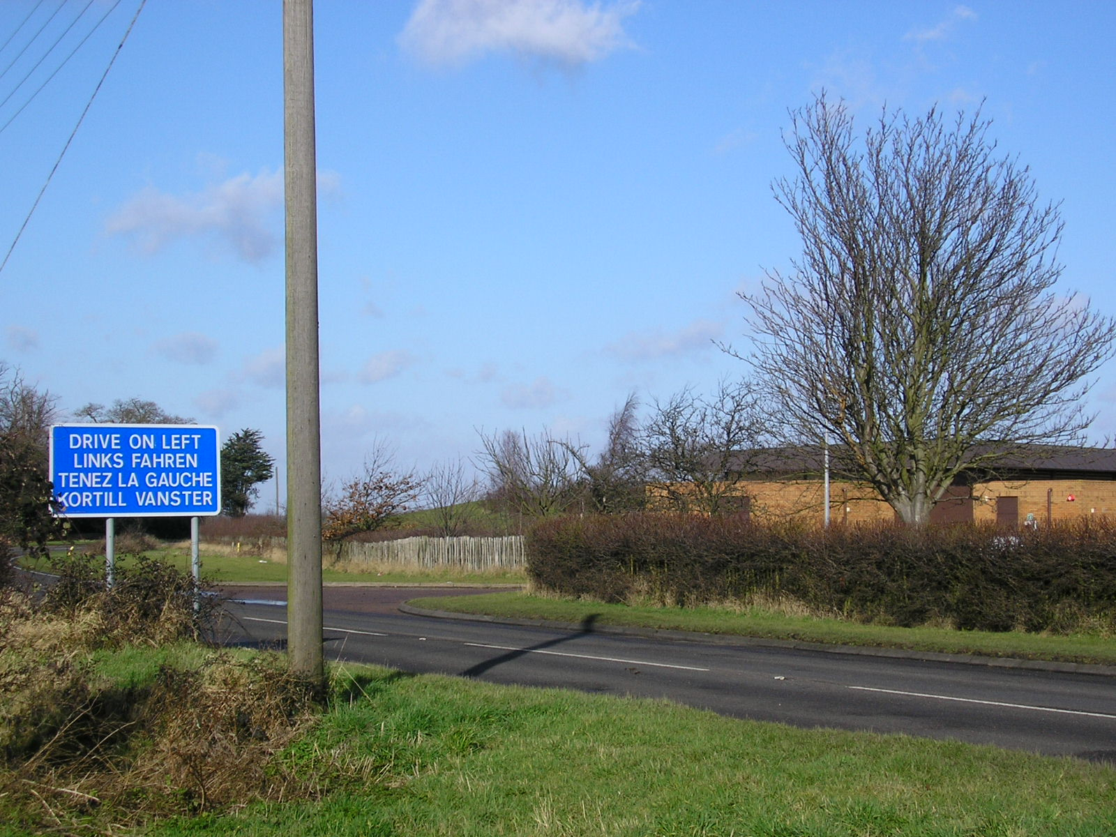 The sign says drive on left in English, French, German and Danish (Körtill vänster). Danish because Harwich has a ferry service to Esbjerg. Clacton Road, Horsley Cross just north of the Wix By-pass (A120). If a foreign visitor having landed at Harwich is at this point they will have just made their first right turn after driving "straight" for 12 km. And possibly there was a serious accident here caused by someone driving on the wrong side. Of course the sign should be on the other side of the road! Essex is not always this helpful - if the foreign visitor continues along this road, they may land up in the Crown Hotel, Manningtree. There, if they go to the toilet, they will have to work out for themselves which of "Gulls" or "Buoys" is appropriate for their sex. The buildings on the right are part of the main treatment works of Tendring Hundred Water Services Ltd - sadly another reference to Tendring Hundred is gone because the company is now called Veolia Water East.